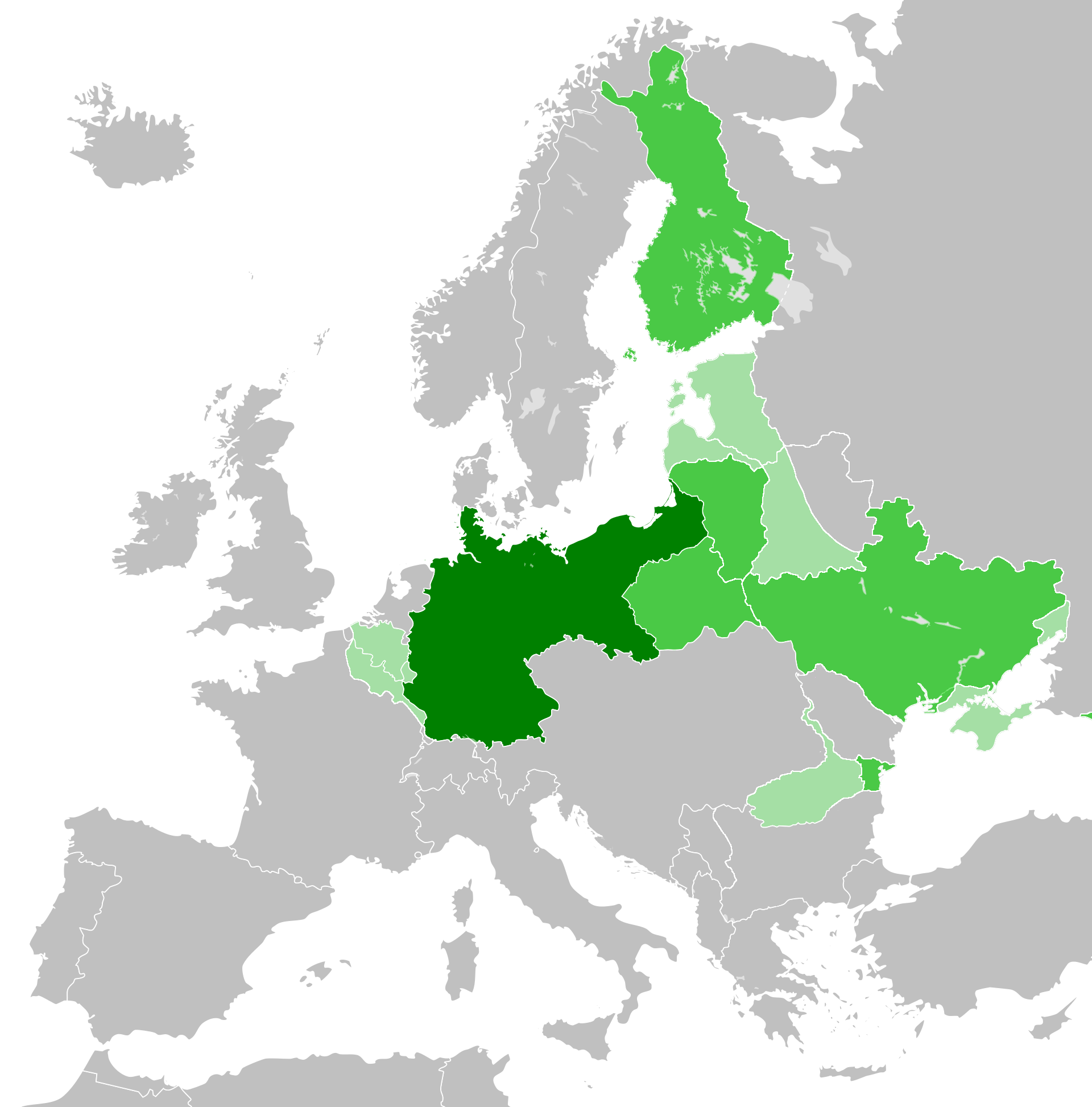 Germany, its clients and occupied territory